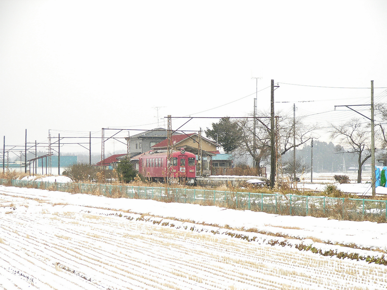 Tsukumo Station of Kurihara Denen Railway. Kurihara, Miyagi prefecture, Japan.